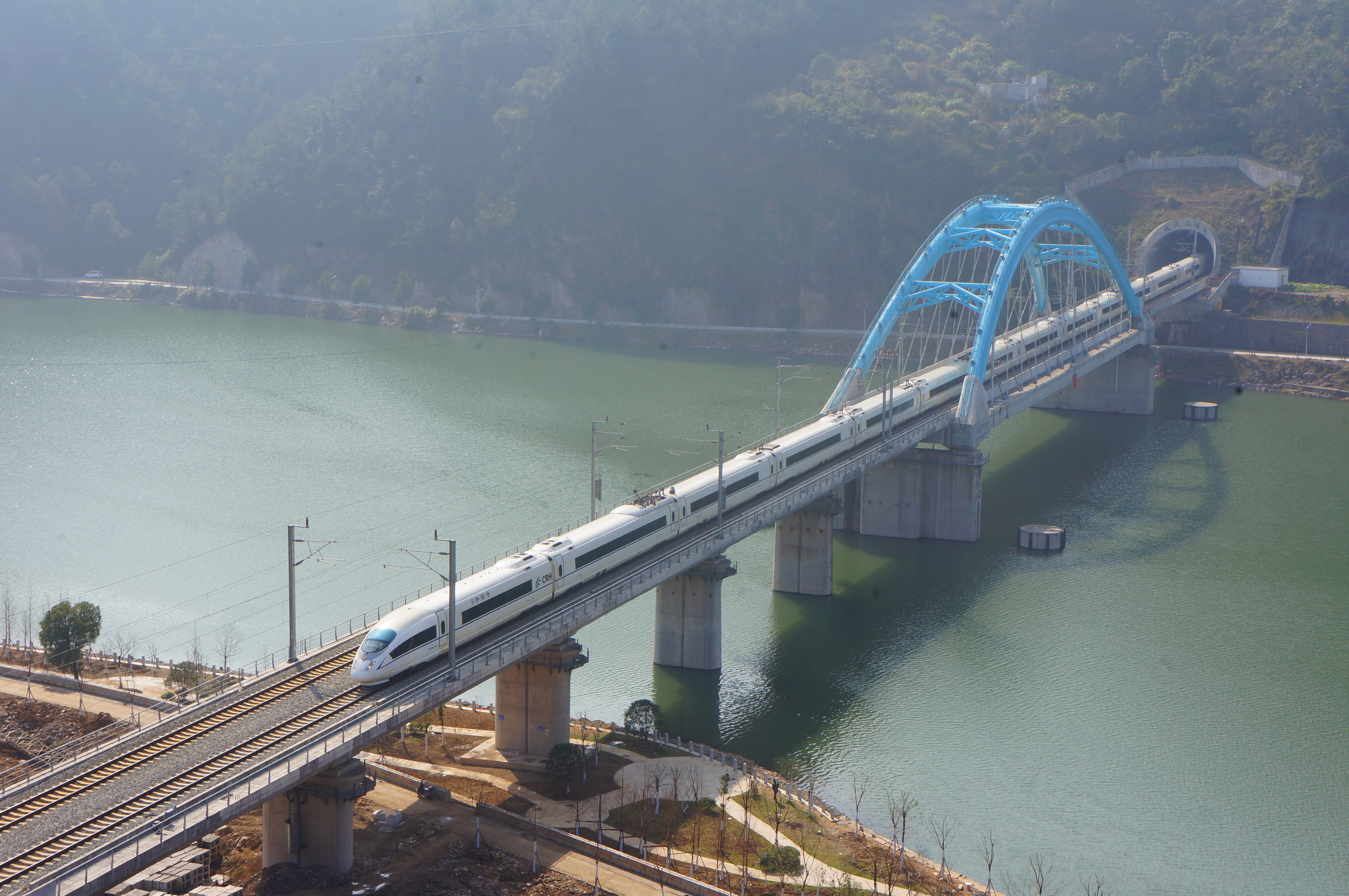 201701 G164 (Cangnan to Beijing South) on Jinhua–Wenzhou HSR over Daxi River (A tributary of Ou River). Taken at Xiahe Pagoda, Lishui